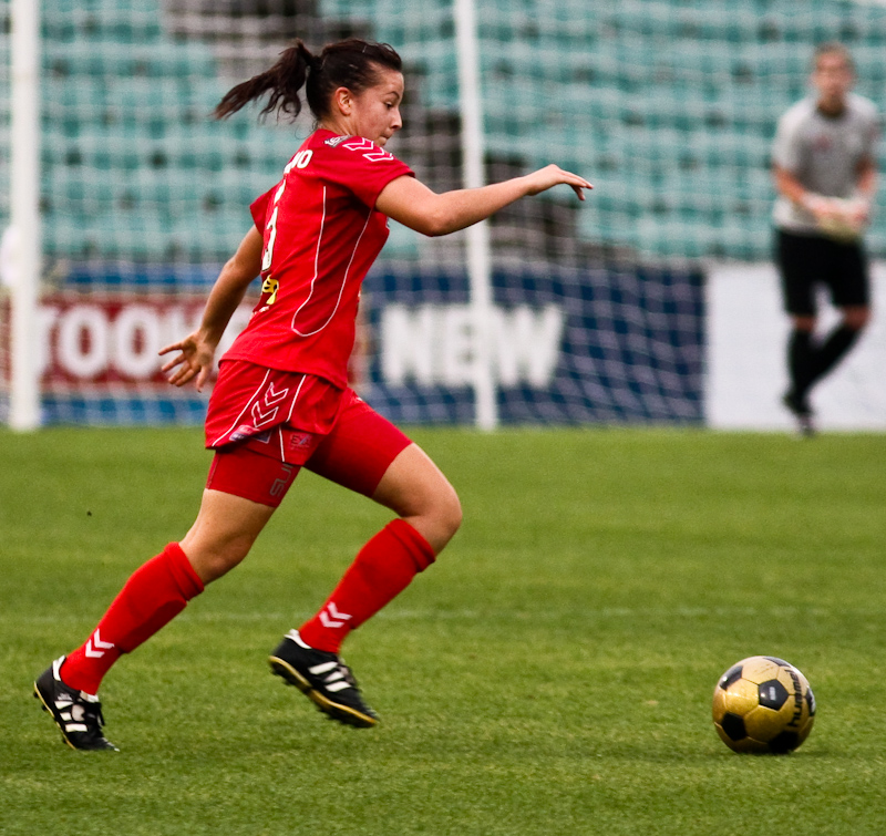 Angela Fimmano playing for Adelaide United against Sydney FC in round 10 of the 08/09 W-League.